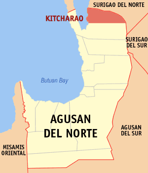 Map of the Agusan del Norte showing the location of Kitcharao